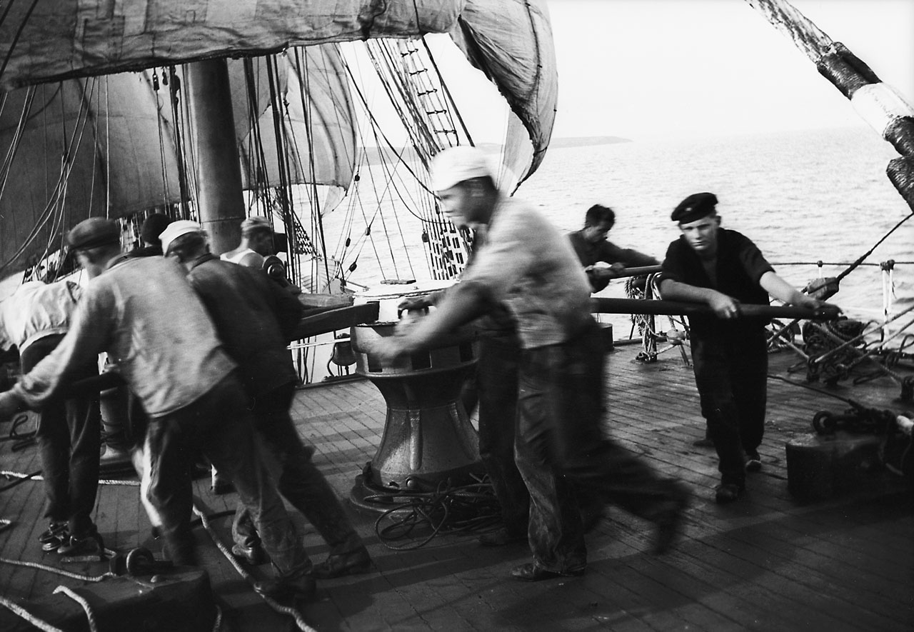 Crew at the capstan of the 'Parma', weighing anchor. Reproduction ID: N61520 Maker: Alan Villiers Villiers collection